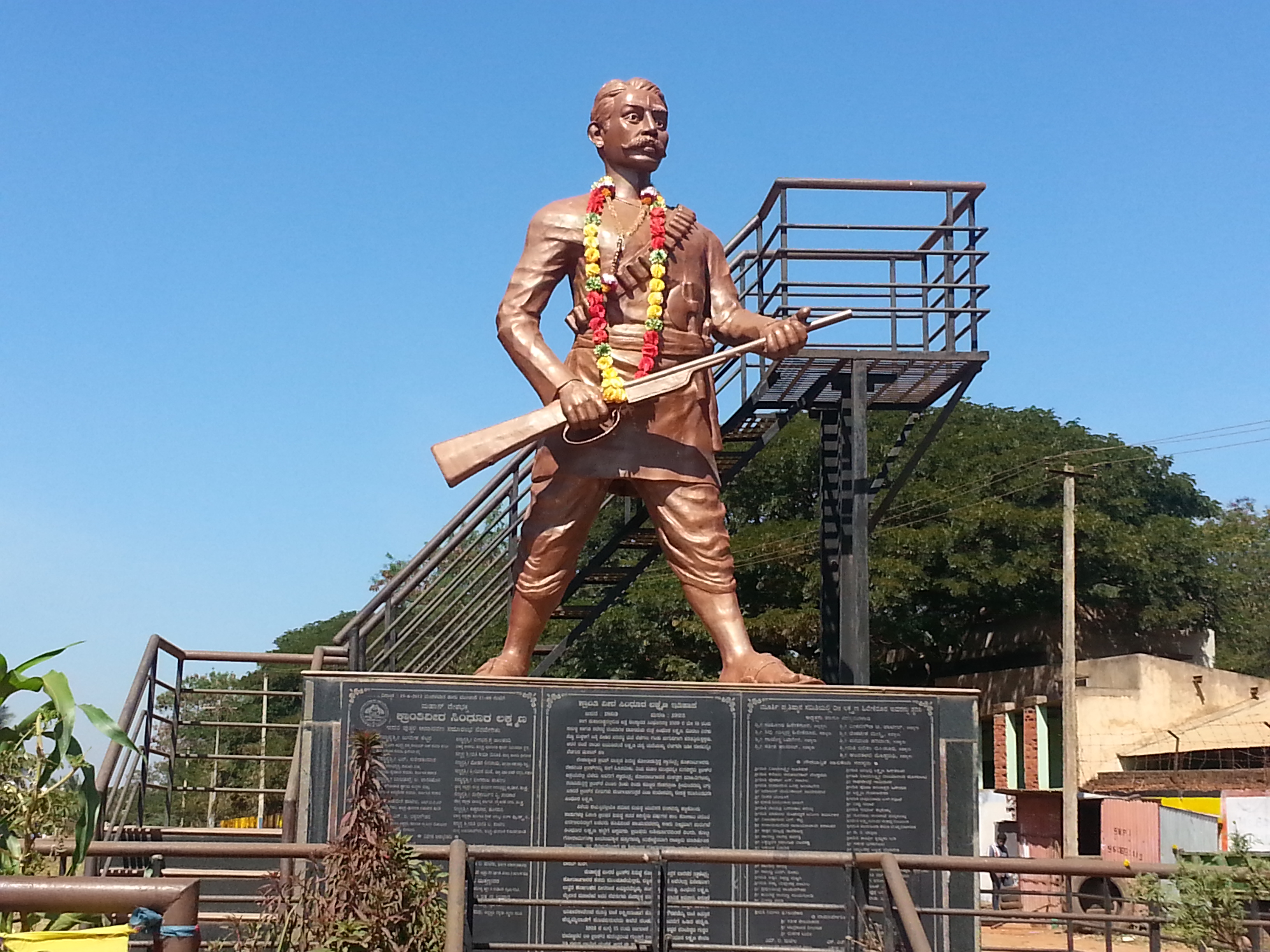 Statue of Sindhura Lakshmana, a freedom fighter of india from the state of karnataka. This statue is present on besides the Airport road, Hubli.